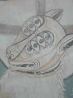 Original of Seele synbolic mark (Neon Genesis Evangelion). Cropped from photo of Romanesque fresco in the National Art Museum of Catalonia, Barcelona.